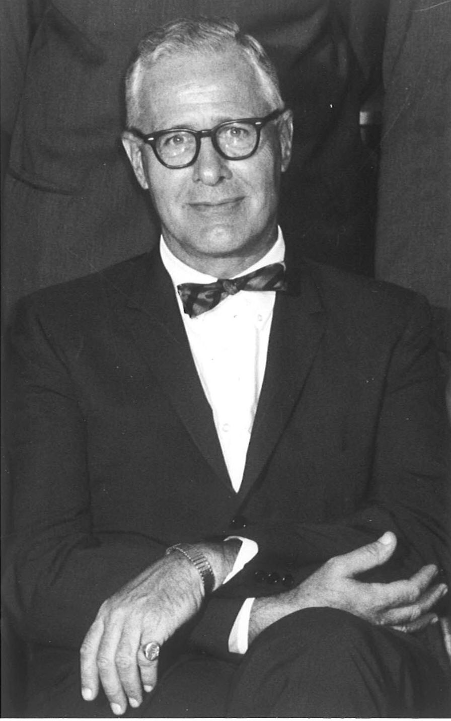 Headmaster Donald H. Miller led the school during the move from Germantown to Fort Washington